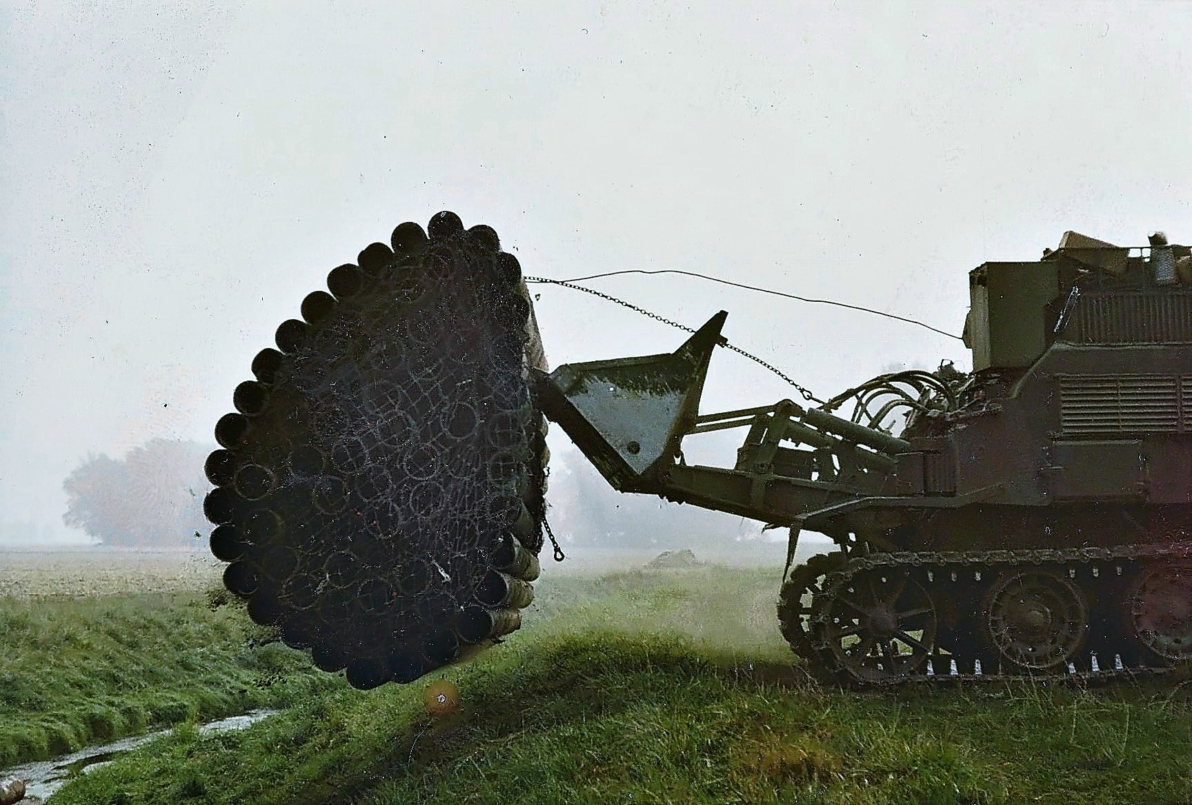 CET Launch. See pipe fascine entry in Wikipedia for more information